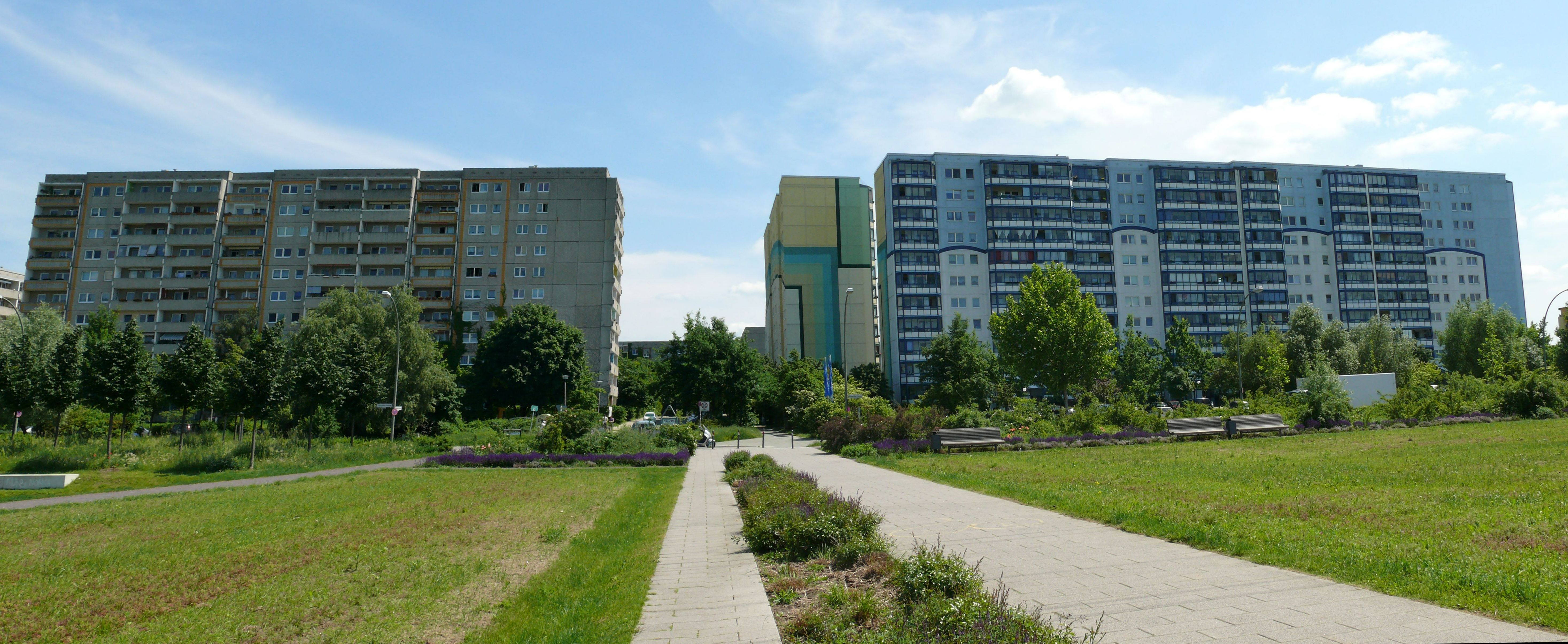 Berlin-Altglienicke Schönefelder Chaussee